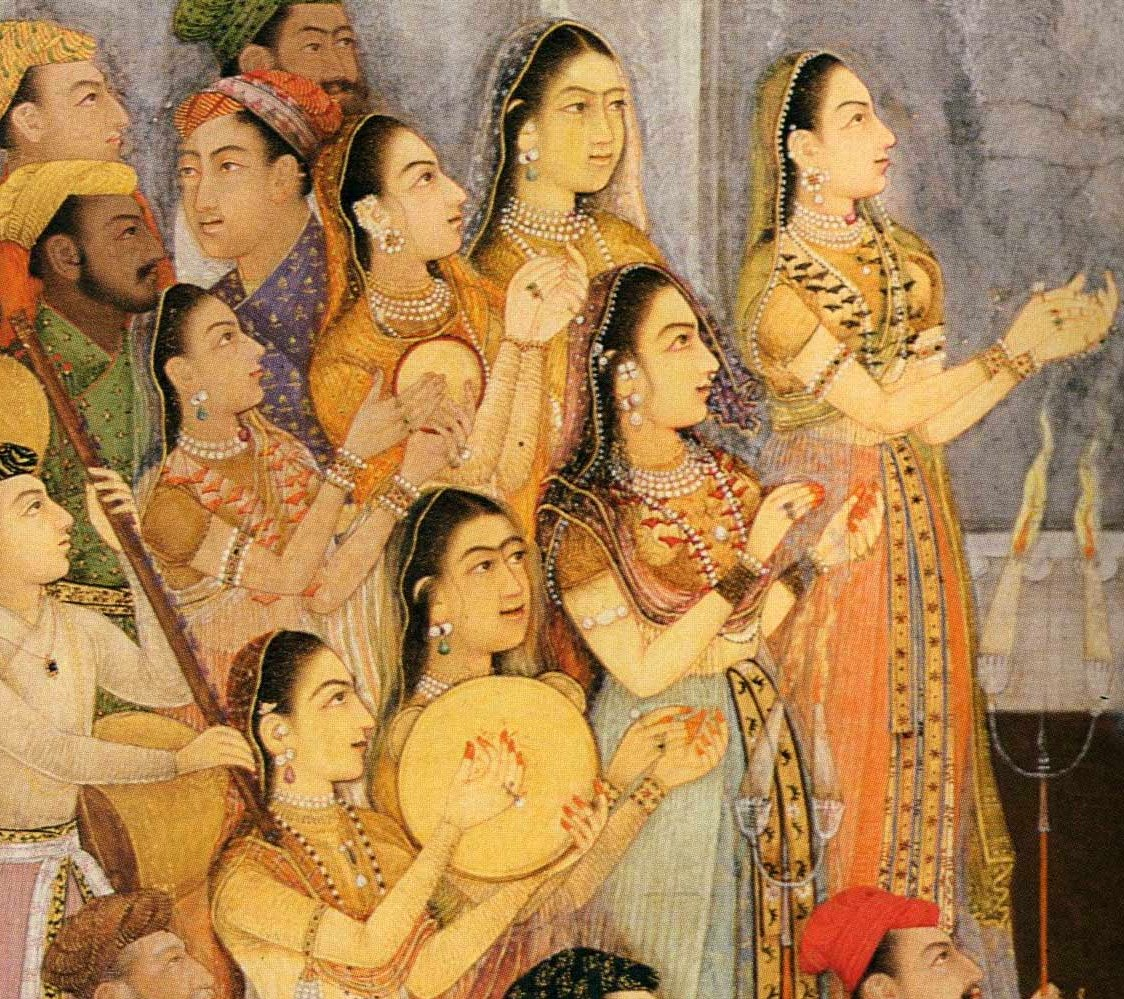 Female musicians at Aurangzeb's wedding - Mughal Painting 1636